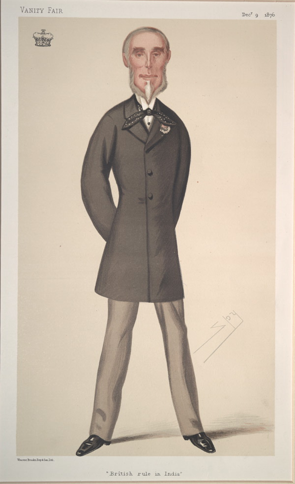 Statesmen No.237: Caricature of The Earl of Northbrook GCSI. Caption reads: "British Rule in India"